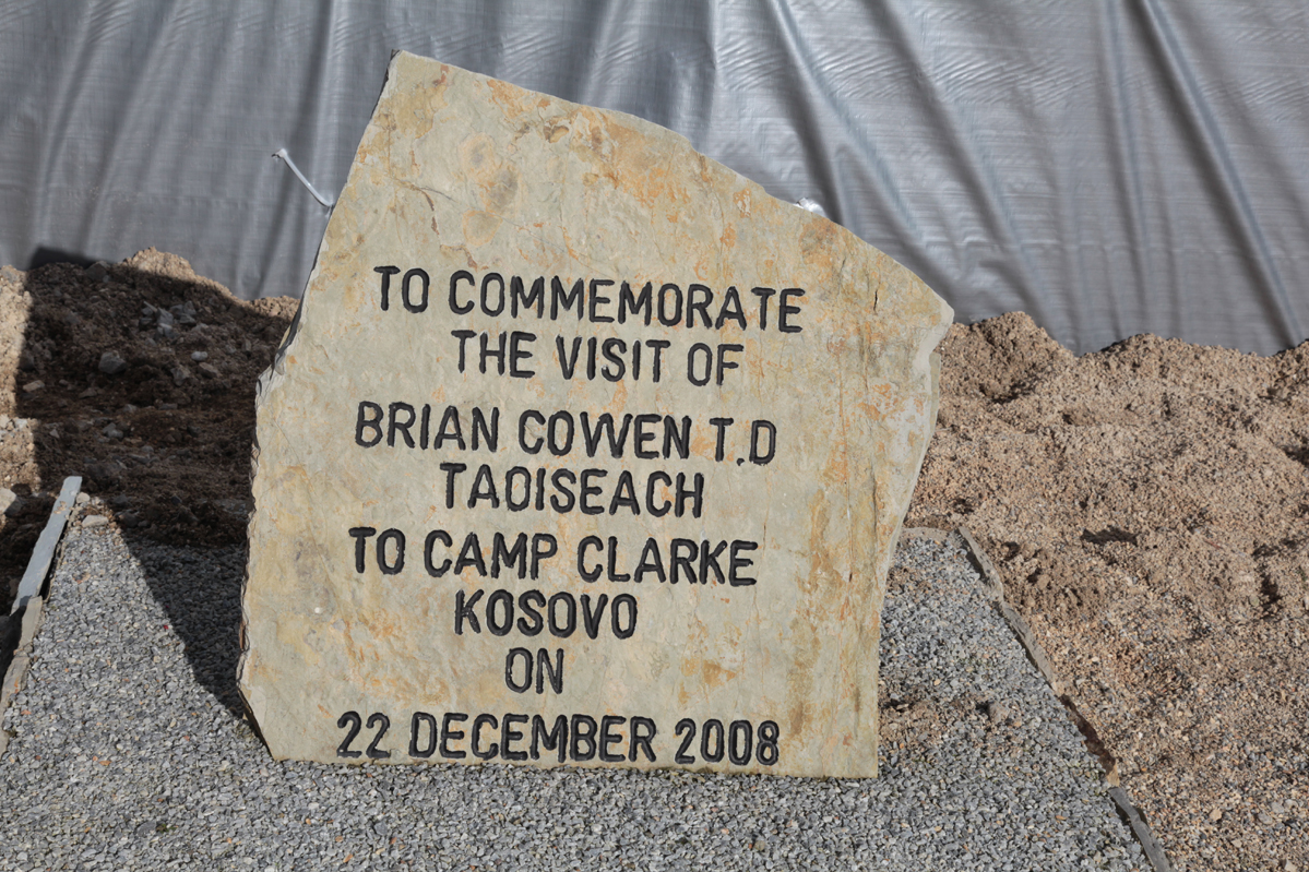 Commerative Stone for Visit of An Taoiseach Brian Cowen TD in Camp Clarke KFOR